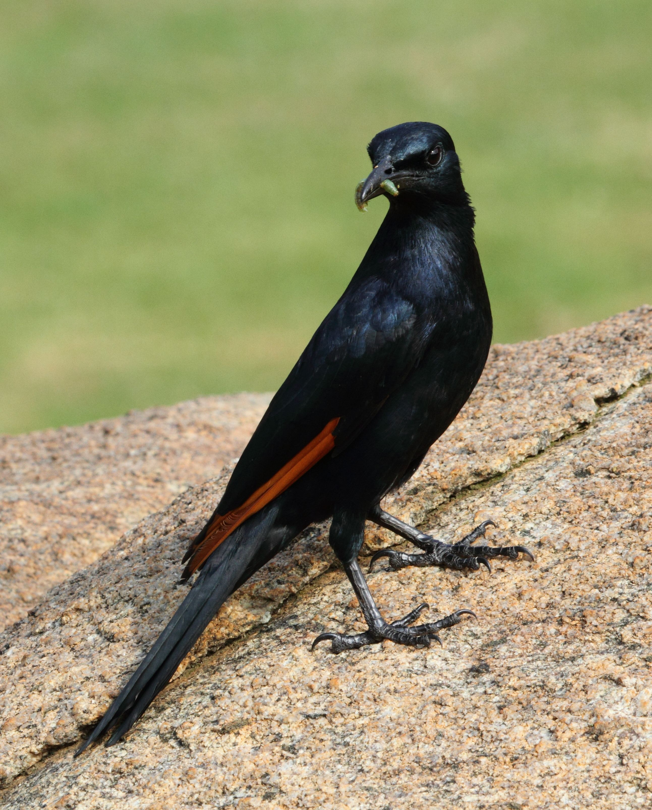 Male red-winged starling Onychognathus morio with caterpillar at Natal Spa, KwaZulu-Natal.